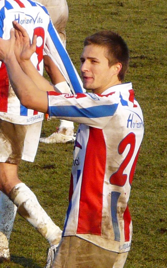 Ionut Neagu in March 2011, during Otelul - Rapid